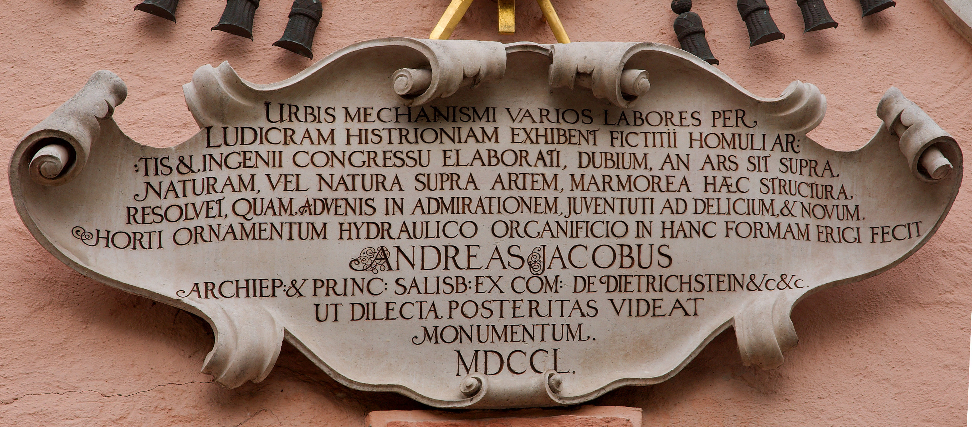 Austria, Salzburg, Hellbrunn Palace